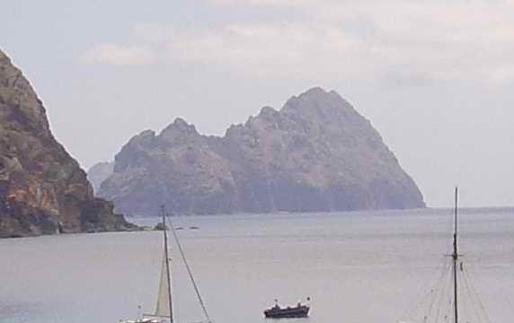 Bugio Island viewed from Deserta Grande